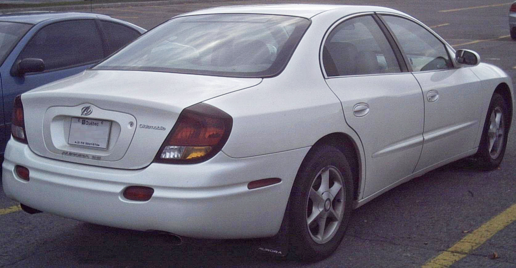 2001-2003 Oldsmobile Aurora V6 photographed in Montreal, Quebec, Canada.